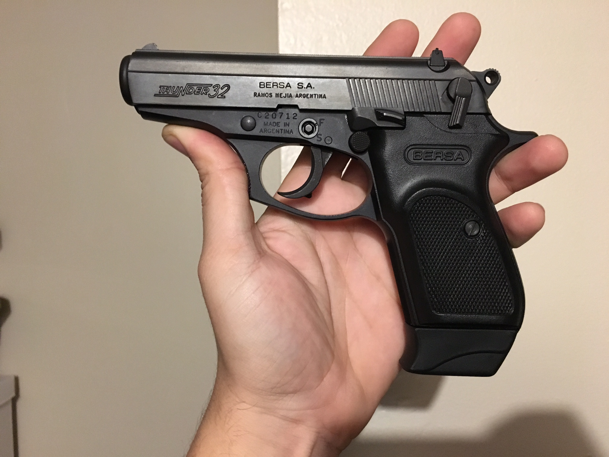 Holding my Bersa Thunder 32